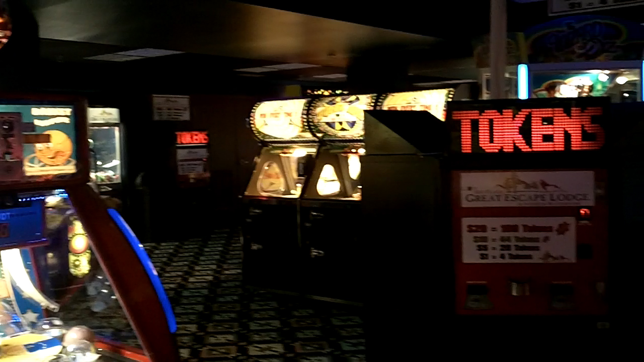 The Starlight arcade at The Great Escape Lodge, Glens Fall north.